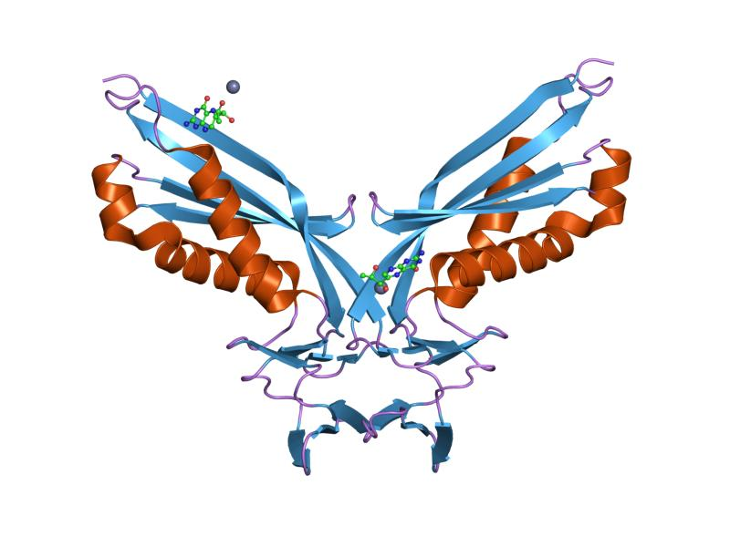 Cartoon representation of the molecular structure of protein registered with 2a0s code.